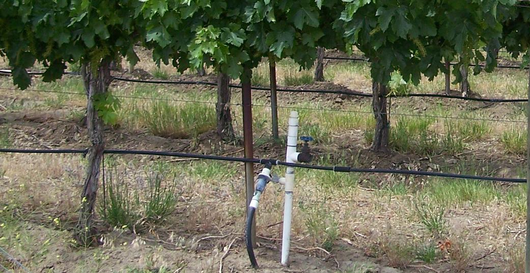 Drip irrigation system used by Hedges Vineyards in Benton City, WA for their Merlot grape vines. Image taken Sunday June 10th 2007 with a kodak z650.